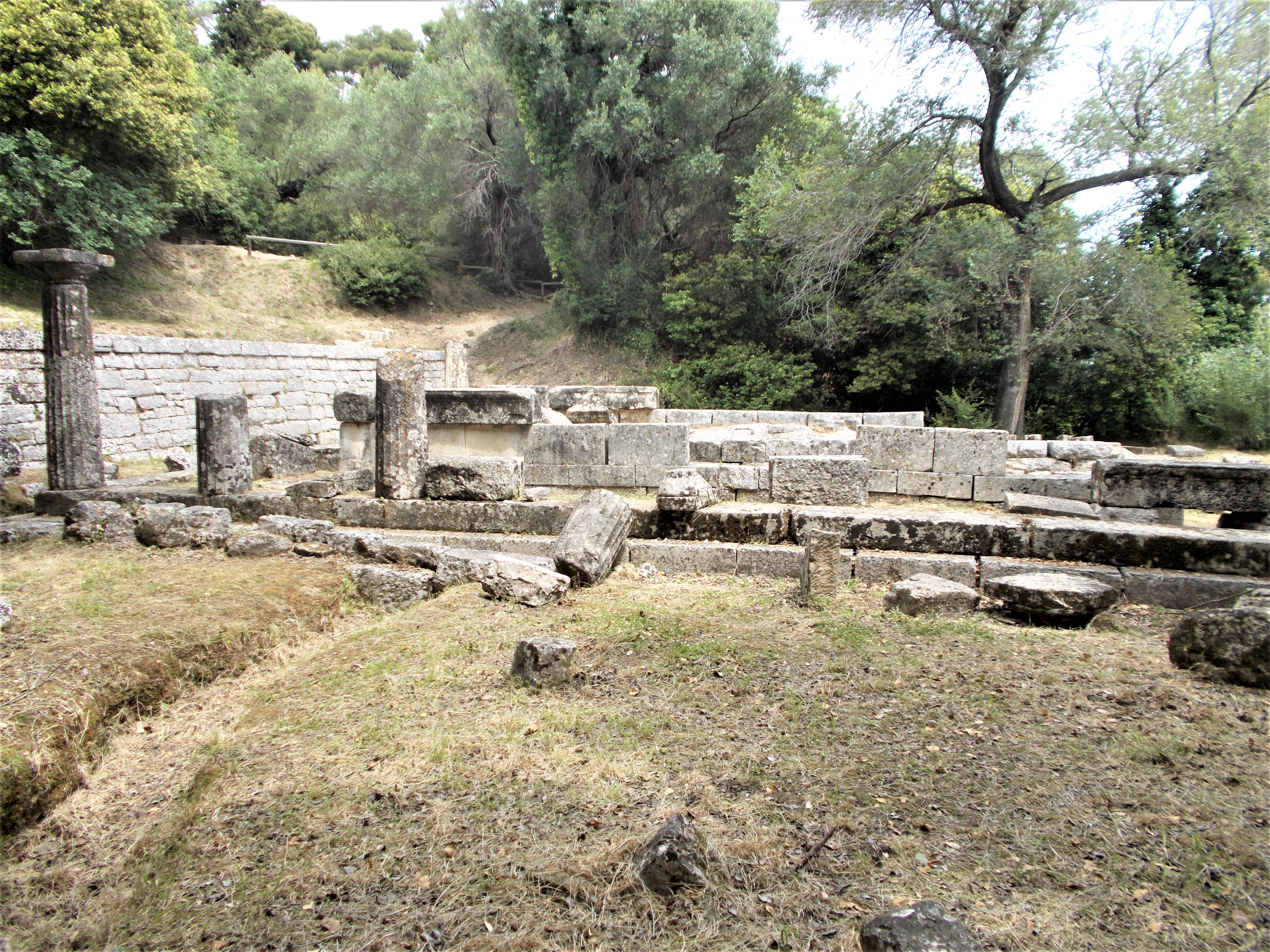 Kardaki Temple south side